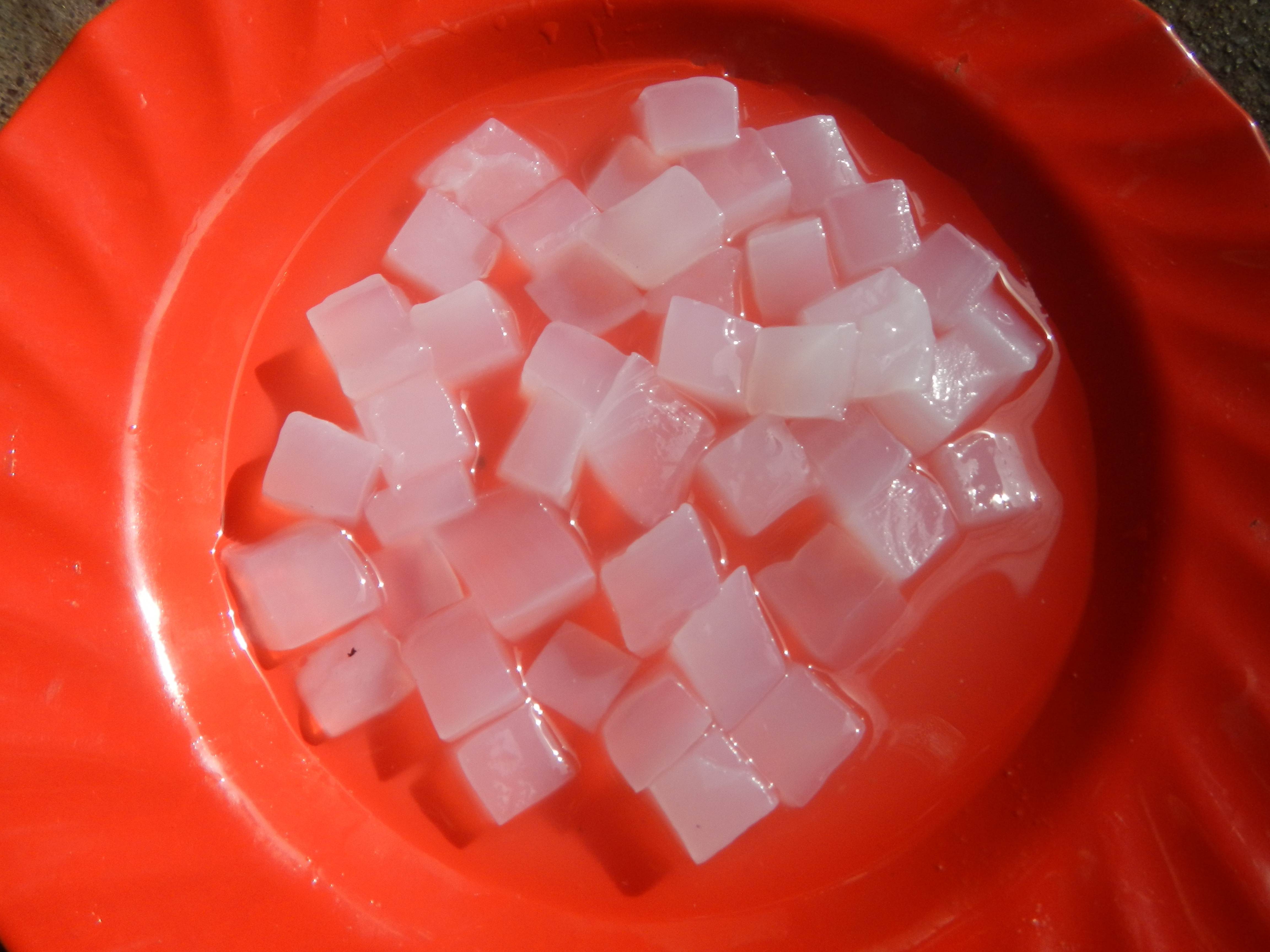 List of Philippine dishes Pinipig Sago Nata de Coco Utaw Soya in Barangay Poblacion 14°57'17"N 120°54'2"E beside Pagala 14°58'14"N 120°53'26"E Baliuag, Bulacan, Bulacan province (Note: Judge Florentino Floro, the owner, to repeat, Donor Florentino Floro of all these photos hereby donate gratuitously, freely and unconditionally all these photos to and for Wikimedia Commons, exclusively, for public use of the public domain, and again without any condition whatsoever).